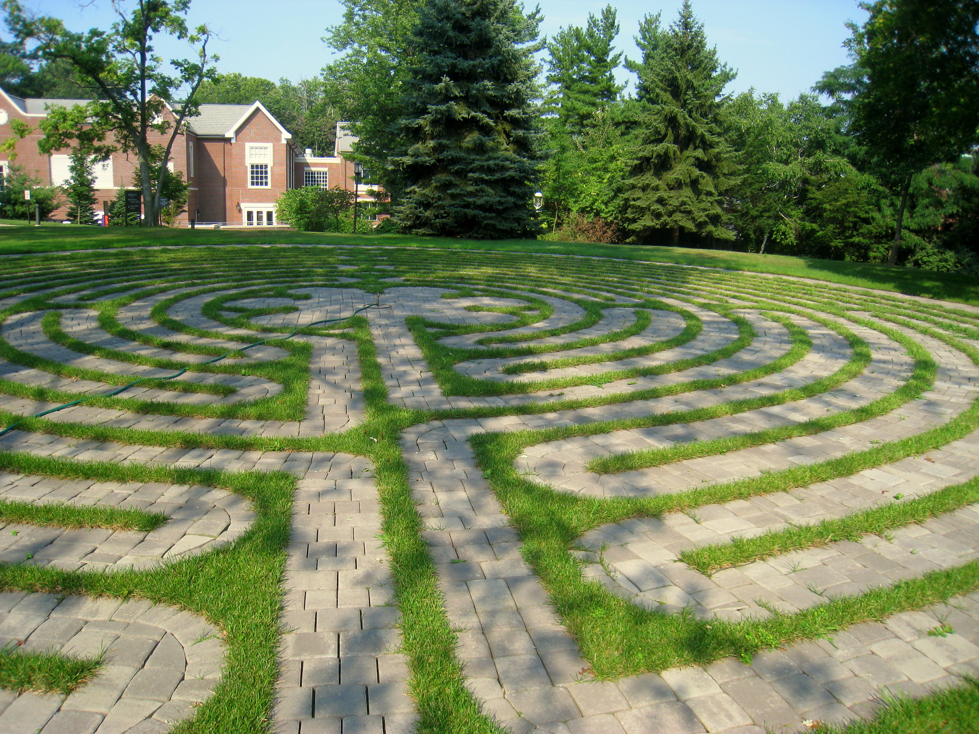 Chatham University, Pittsburgh, Pennsylvania, USA.